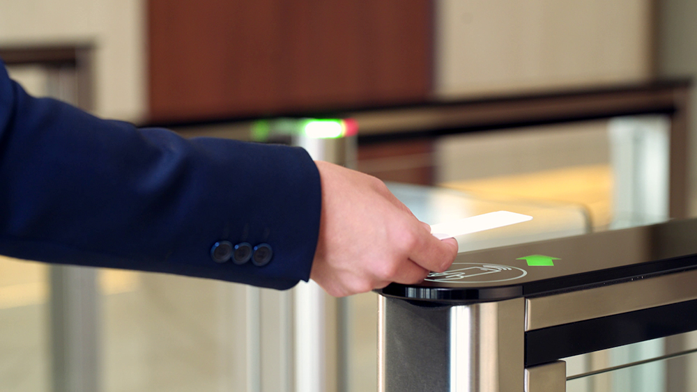 Smart-Card Pass through the PERCo Speed Gate